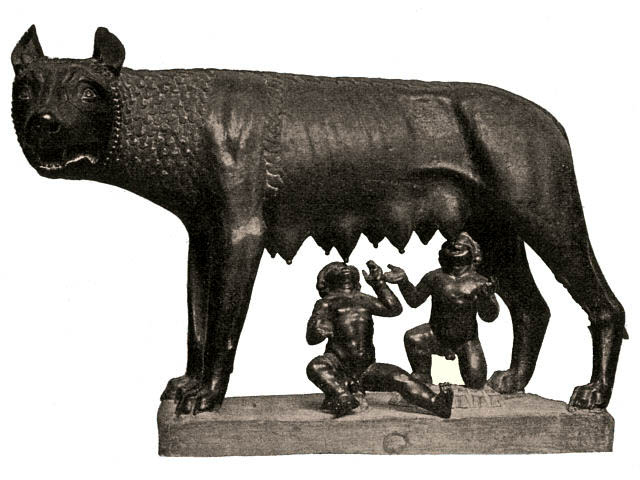 The Capitoline she-wolf with the boys Romulus and Remus. Museo Nuovo in the Palazzo dei Conservatori, Rome.